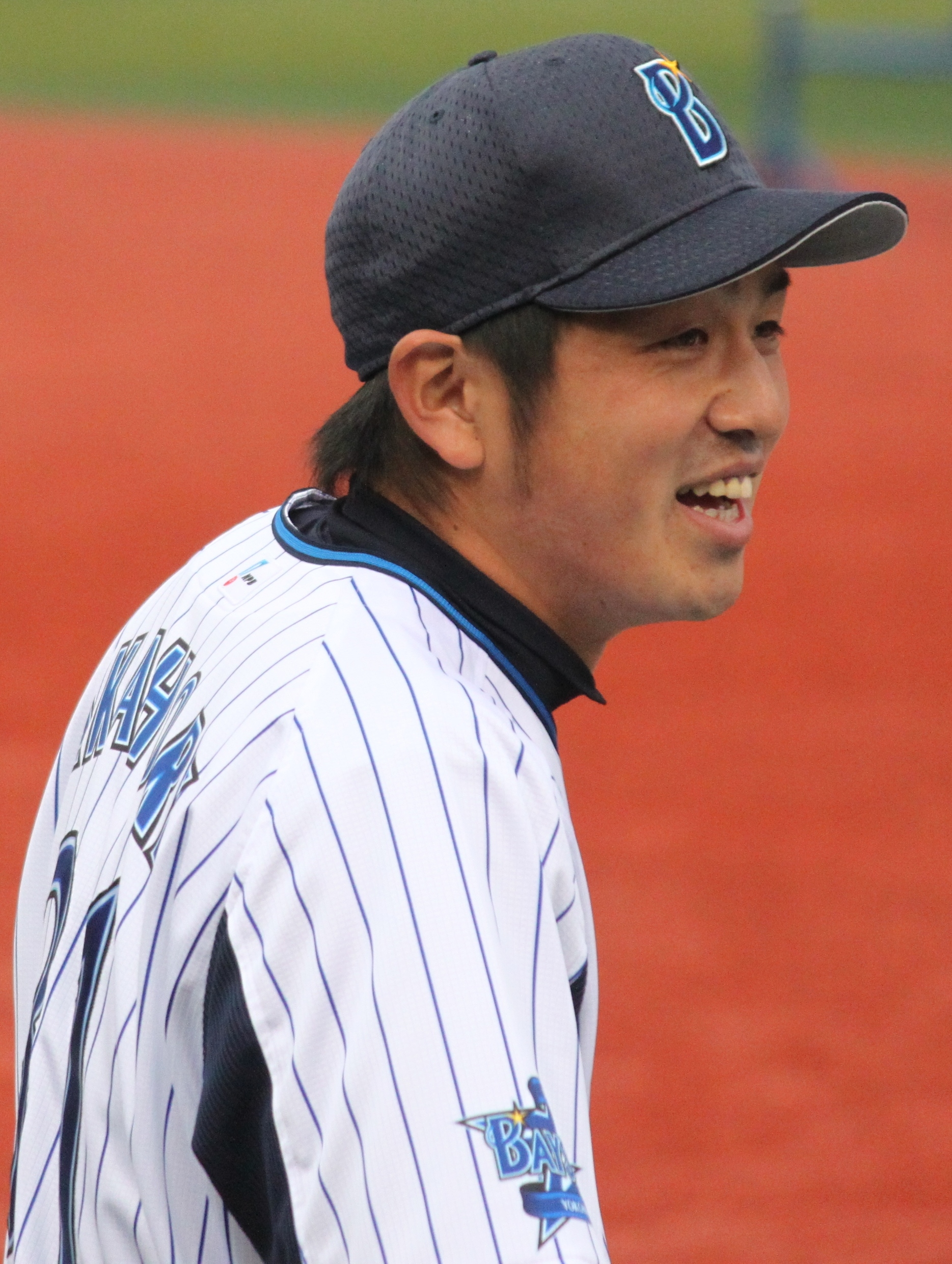 Daichi Akahori, outfielder of the Yokohama DeNA BayStars, at Yokohama Stadium.